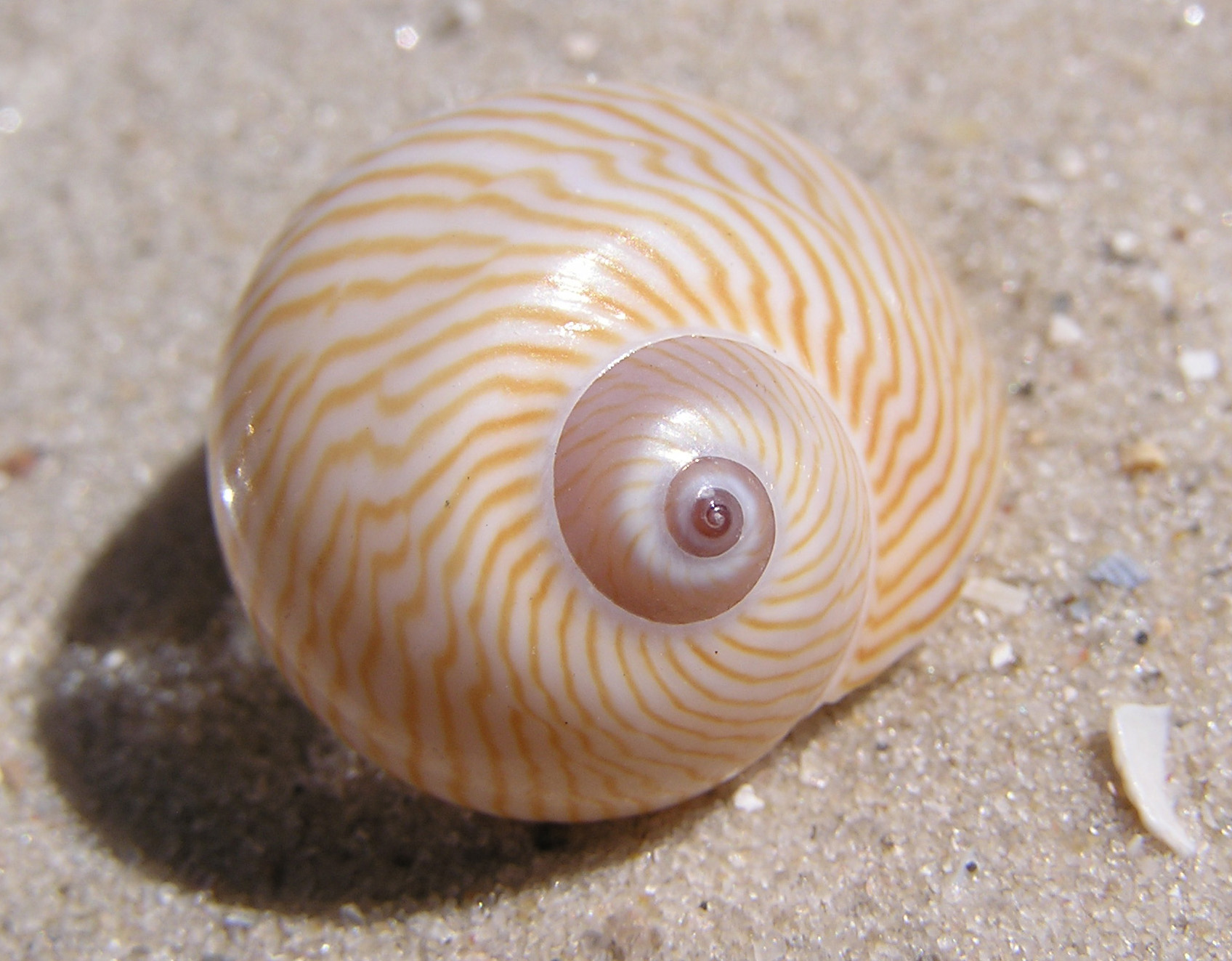 A Tanea lineata shell.